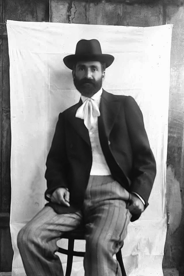 Portrait of Hovhannes Tumanyan